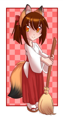 a Kemonomimi fox girl